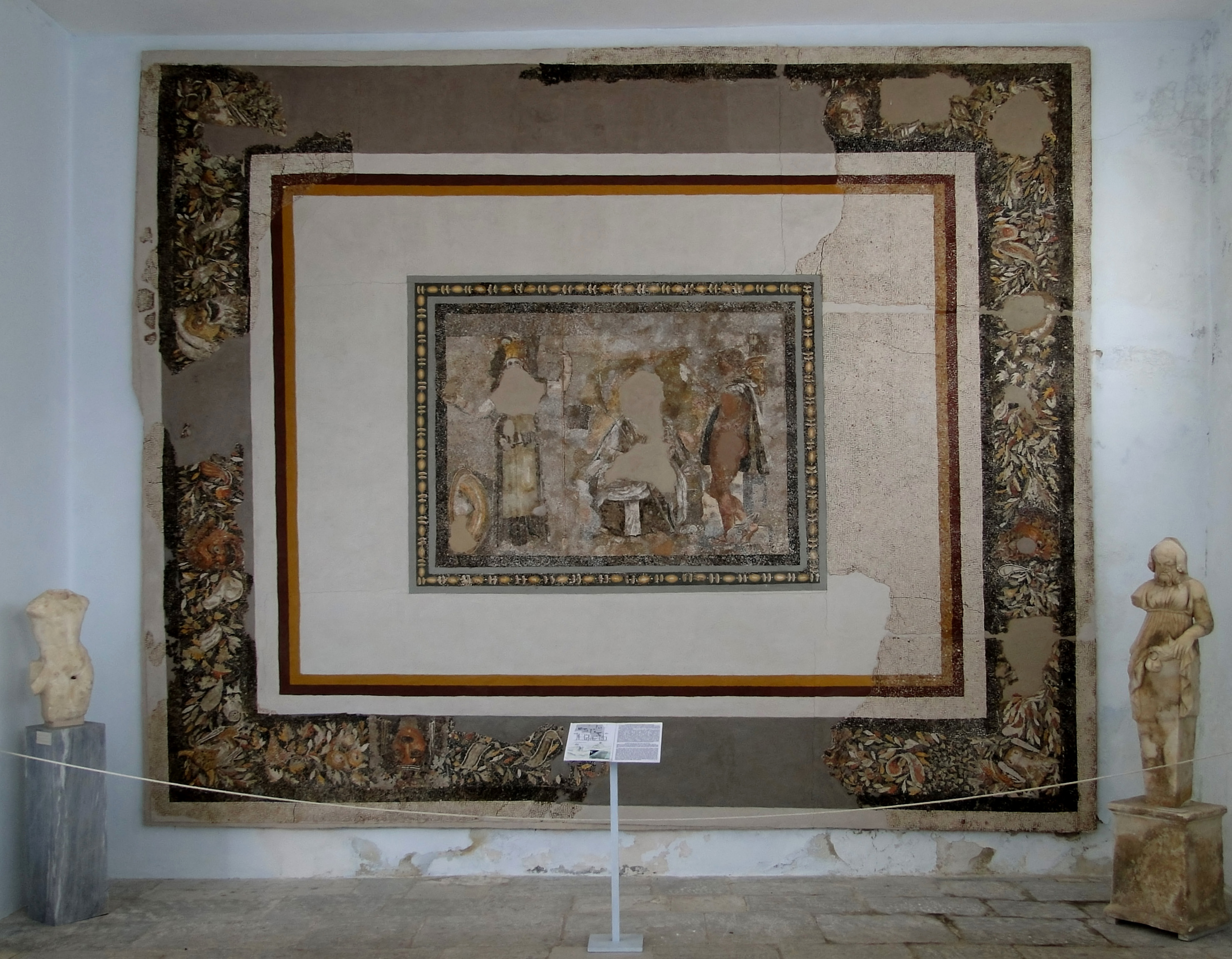 Mosaic floor from the Insula of the Jewellery in the Archaeological Museum of Delos, Greece